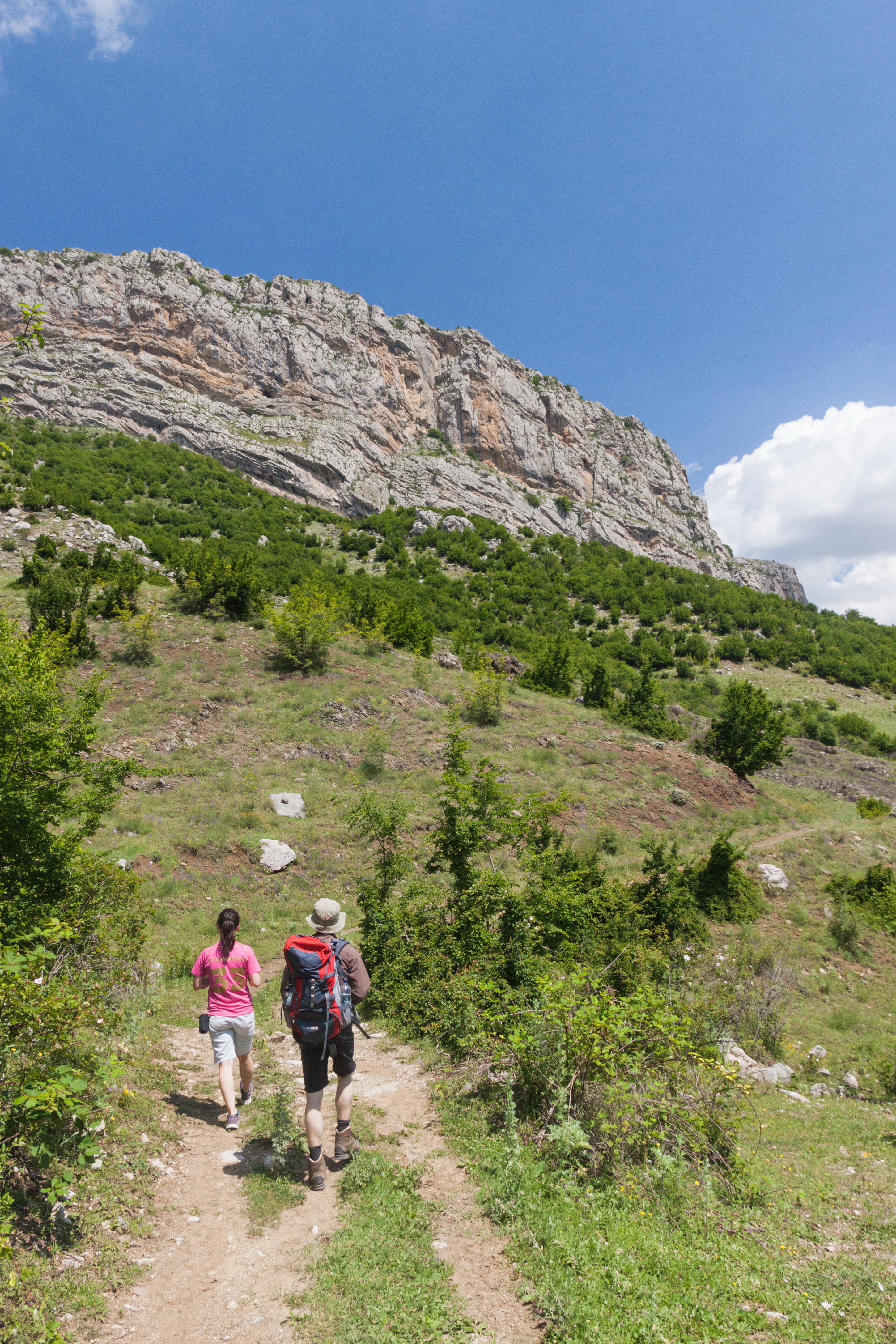 The view from the Janapar tourist route. Section between Karintak/Dashalty village and the city of Shushi/Shusha, Nagorno-Karabakh.